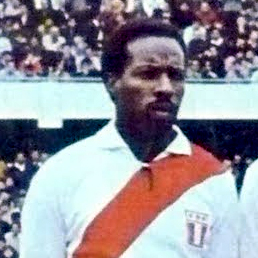 Peru national football team moments prior to a practice match against the Mexico national football team in 1968. Friendly match ahead of their participation in the 1970 FIFA World Cup, featuring players from the team that qualified them to the aforementioned tournament.